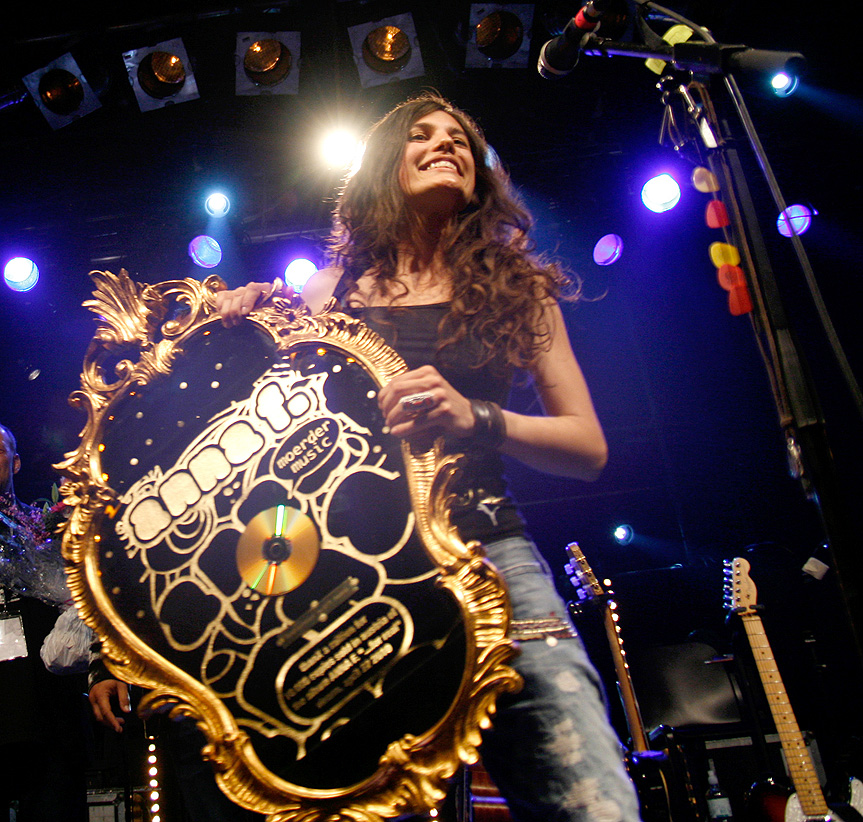 Anna F. - concert at the cultural center WUK in Vienna.